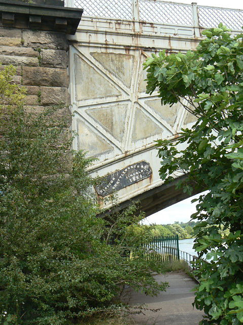 Clayton Shuttleworth, 1850 Cast plate indicating the date when the viaduct was built, and the maker. The outer cast iron ribs were retained to maintain the visual effect of the original but in practice the structure is now a series of concrete ribs.